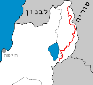 Golan Trail locator map